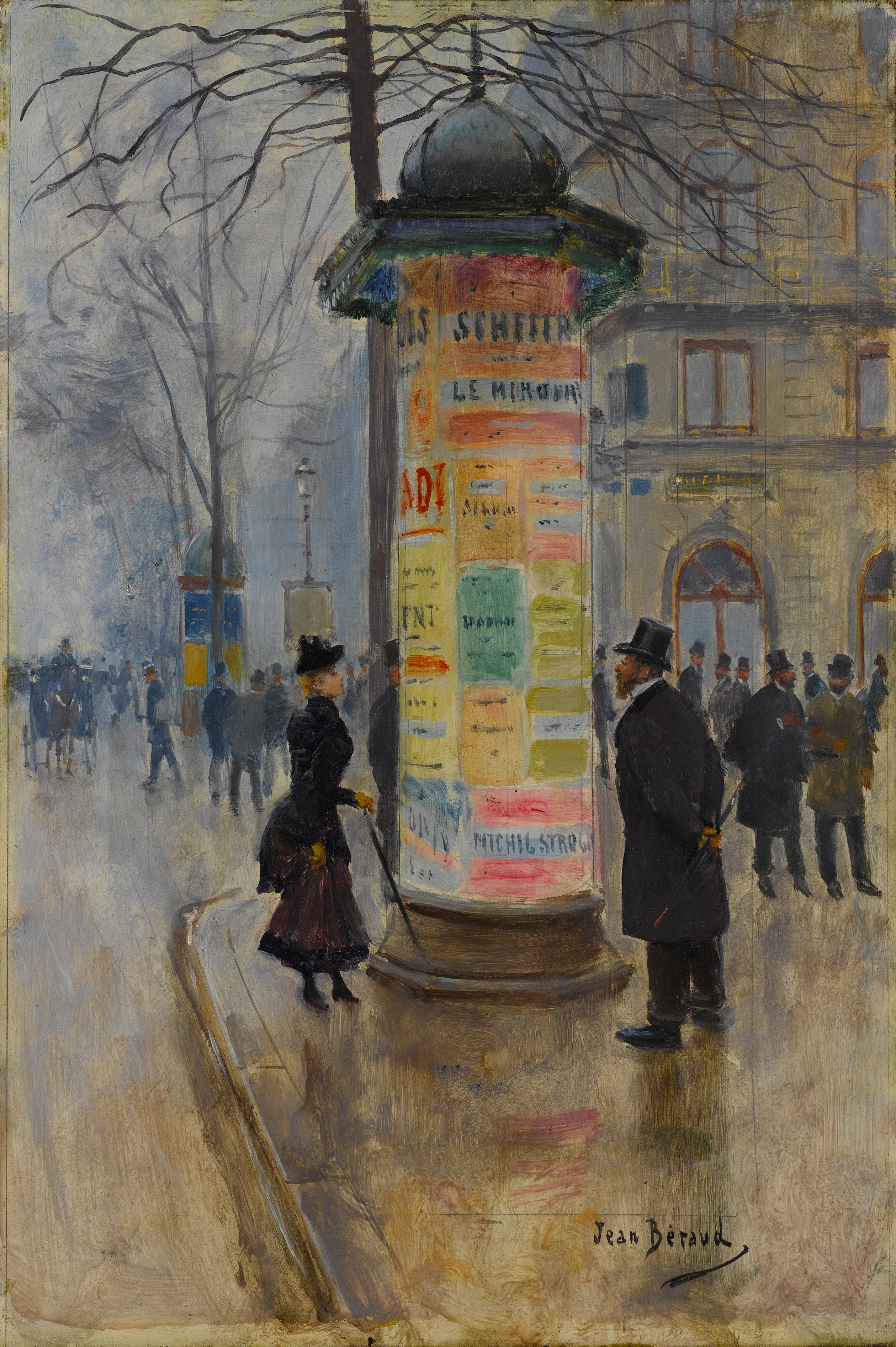 This painting shows a view of a Parisian street corner on a gray, winter day. A typical Parisian scene, as Beraud’s straightforward paintings most commonly were, this painting evokes bustling activity in the background and an exchange of gazes in the foreground. A stylish woman dressed in black peruses a poster-covered kiosk, its orange tones contrasting to the otherwise silvery tones of the painting. To her right, another man who momentarily appears to be doing the same actually gazes in her direction. He is joined by another man who peers from behind the kiosk to admire the woman’s fashionable beauty. This woman is the only female shown in the painting, as men fill the background with movement and conversation. Beraud’s representation of this street scene is so precise that its location in Paris can be identified as a view of the boulevard des Italiens from the corner of rue Laffitte.